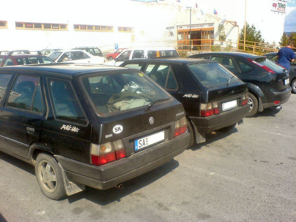 Skoda Favorit and Forman Black Line models parked at a shopping centre.